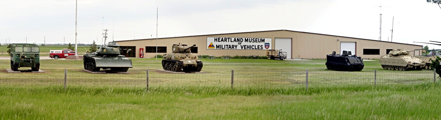 Heartland Museum of Military Vehicles in Lexington, Nebraska. This is a stitched image of 4 pictures. The exposure on the far right image doesn't exactly match the other three and is pretty obvious. If you wish to try stitching yourself then drop me a message and I'll give you the originals to try with.